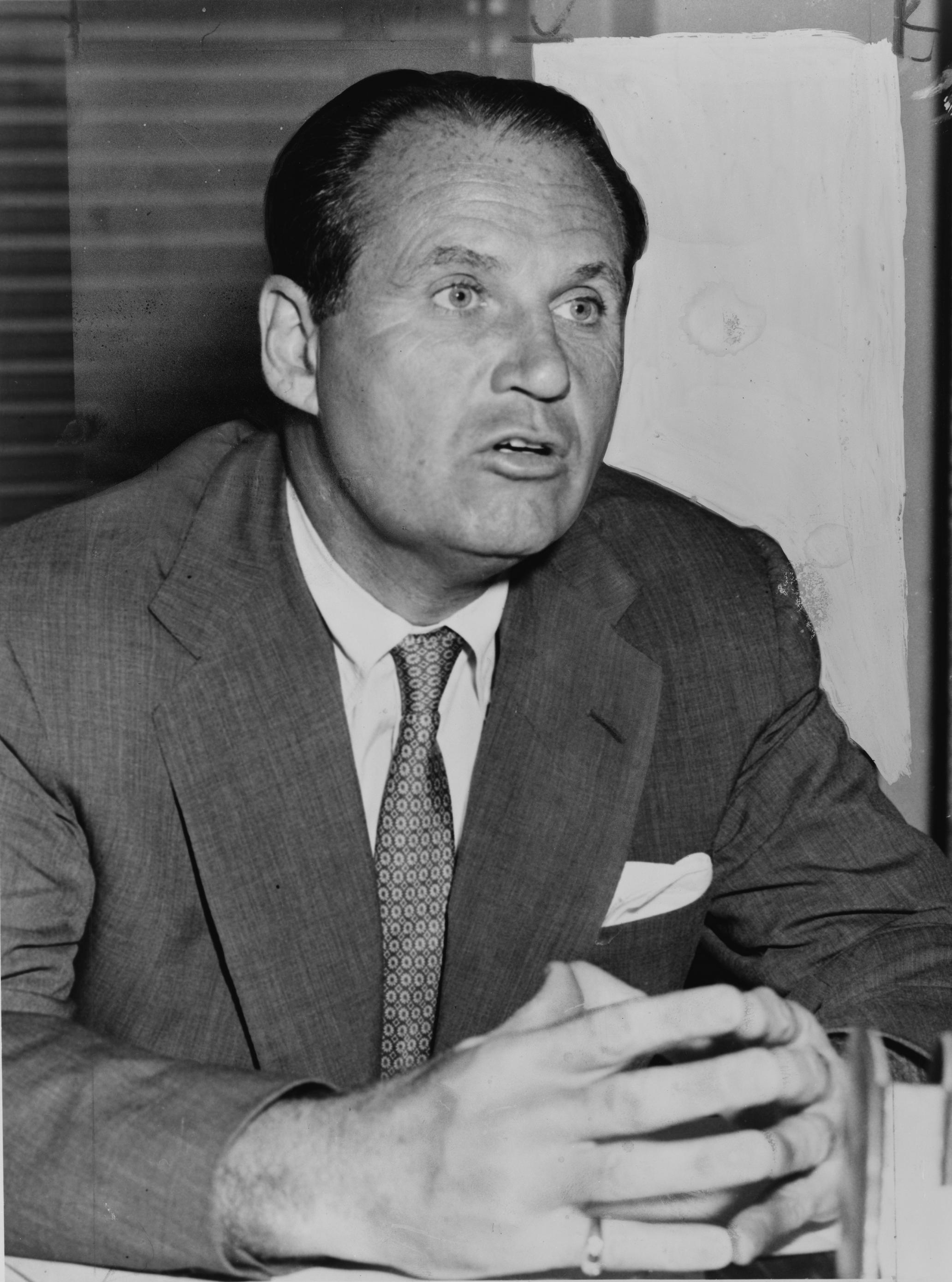 William Alfred "Bill" Shea ( June 21, 1907 – October 2, 1991) was a lawyer who is best known for his part in the return of National League professional baseball to New York City after the departure of the Brooklyn Dodgers and New York Giants after the 1957 season, and for the stadium that bears his name.